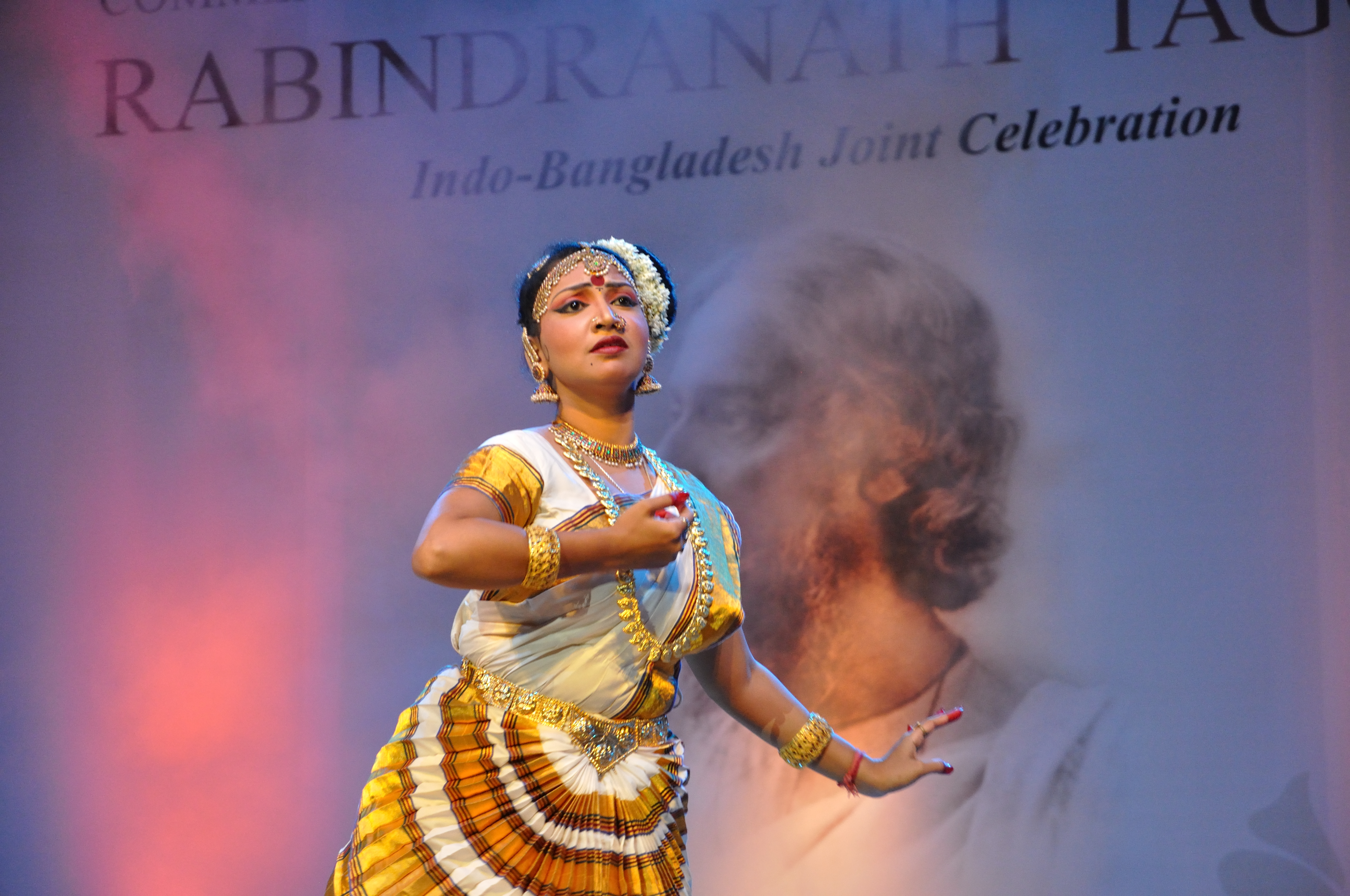 Commemoration of 150th birth anniversary of Rabindranath Tagore, organized by the Ministry of Culture, Government of India. It was an Indo-Bangladesh joint celebration, held at the Science City, Kolkata on 9 may, 2011.